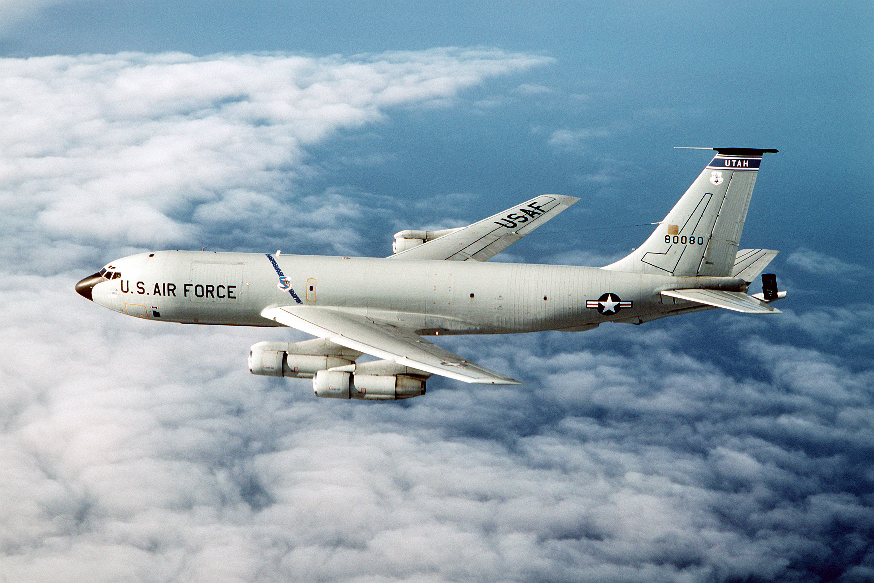 A U.S. Air Force Boeing KC-135E Stratotanker (s/n 58-0080) from the 191st Air Refueling Squadron, 151st Air Refueling Group, Utah Air National Guard, flying over the English Channel on 27 March 1987.